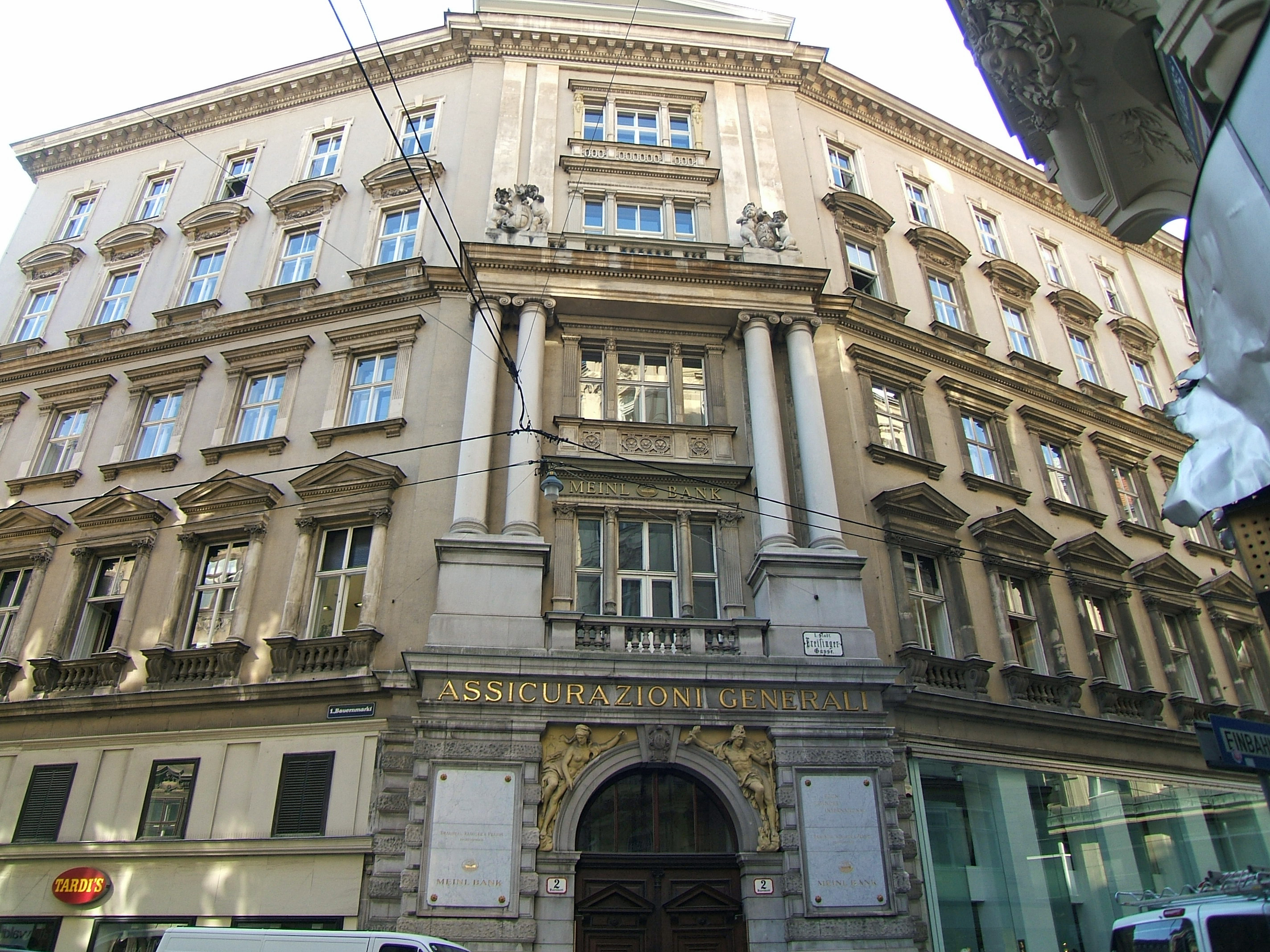 Building of Generali asurance comp. in Vienna, 1st district, Bauernmarkt 2